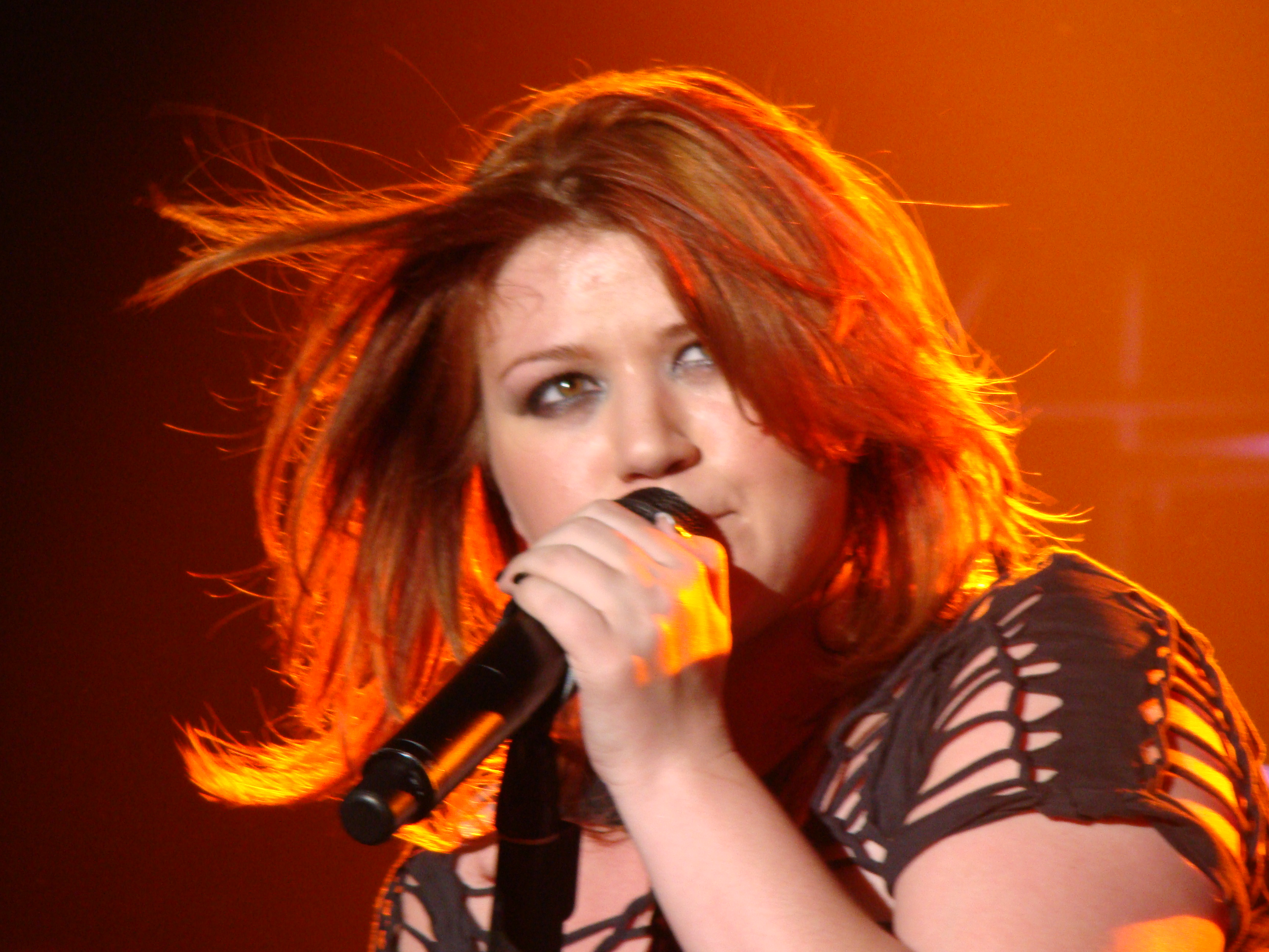 Kelly Clarkson